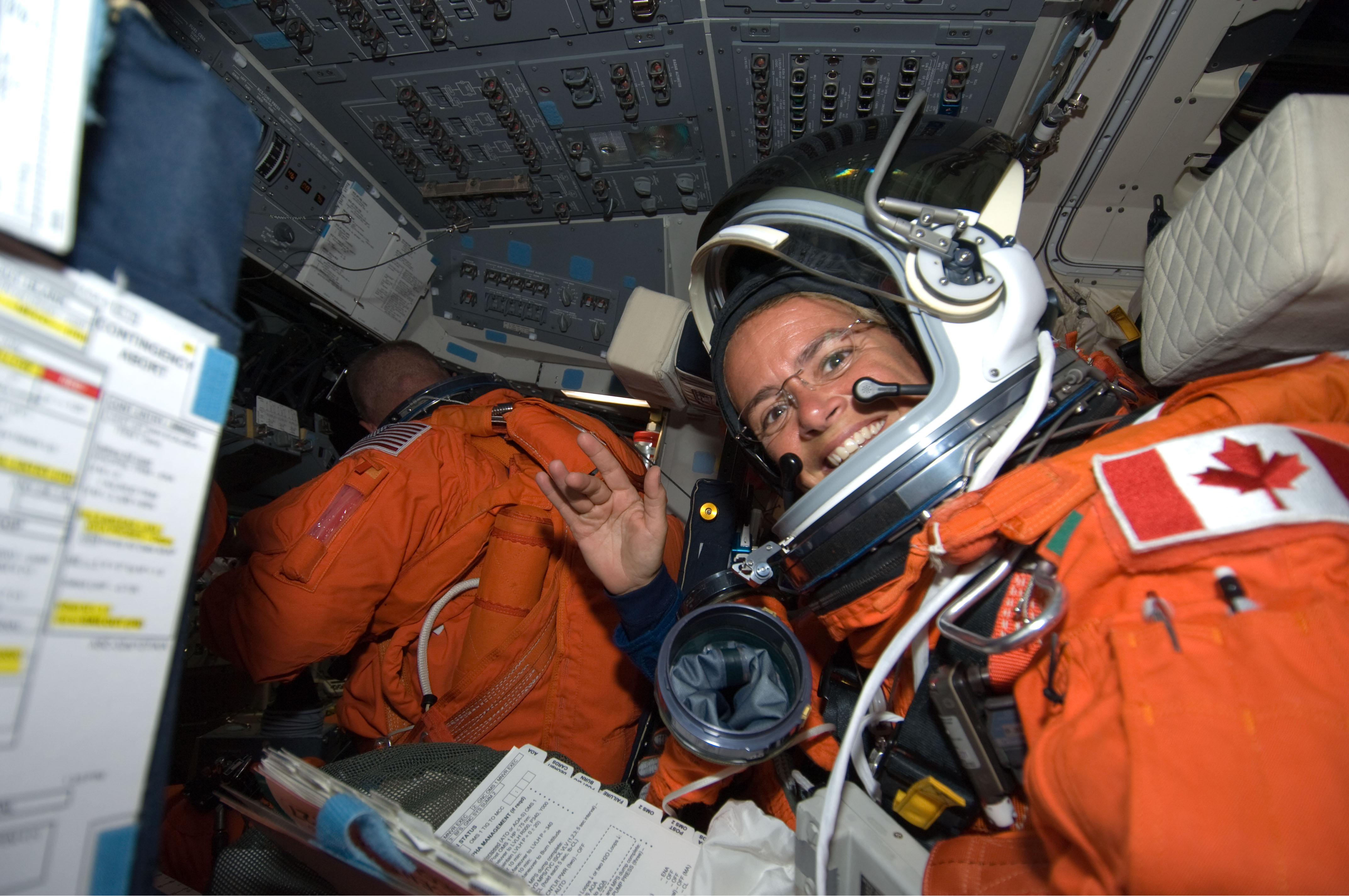 Canadian Space Agency astronaut Julie Payette, STS-127 mission specialist, attired in her shuttle launch and entry suit, takes a moment for a photo on the flight deck of Space Shuttle Endeavour during postlaunch activities. Astronaut Doug Hurley, pilot, is visible in the background.